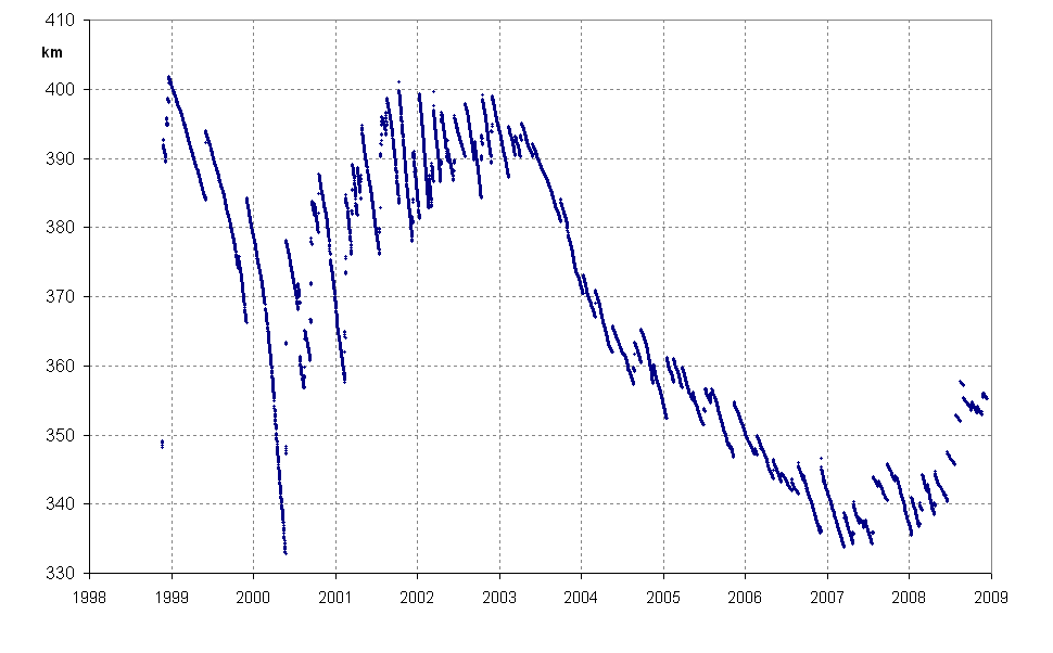 Mean altitude of the International Space Station from November 1998 until 2009